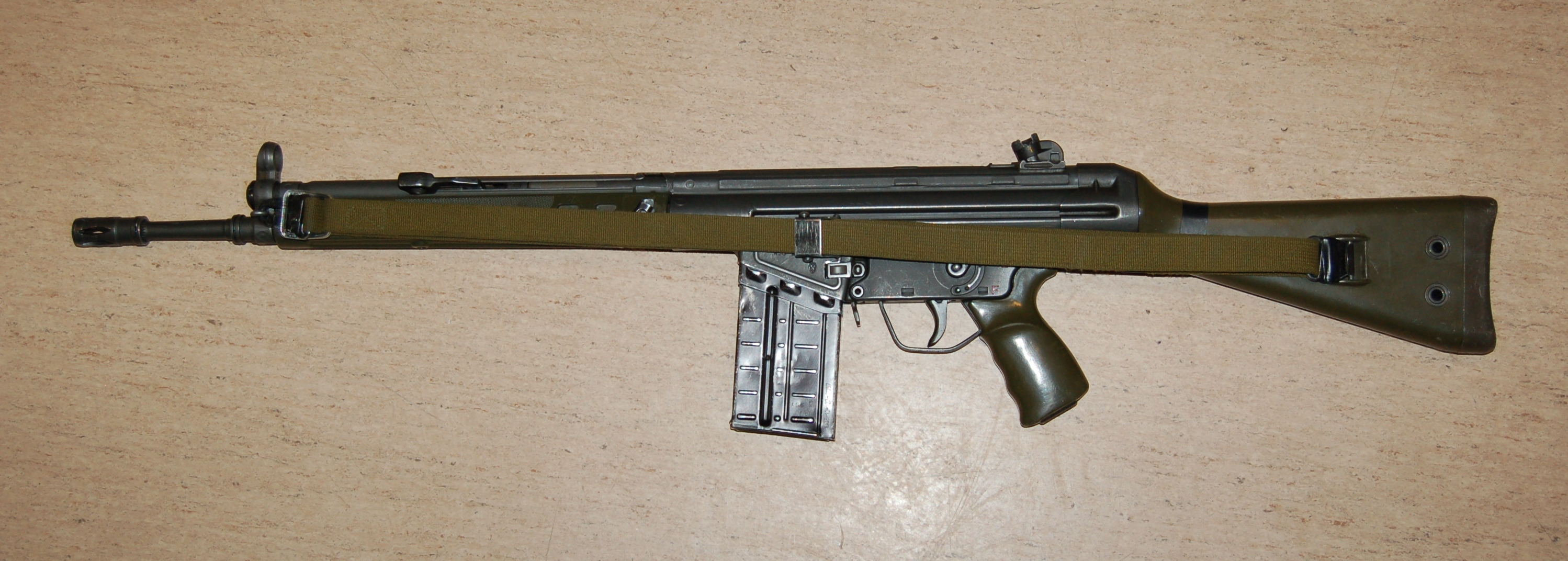 The Norwegian produced AG-3 7.62 mm assault rifle, left view.